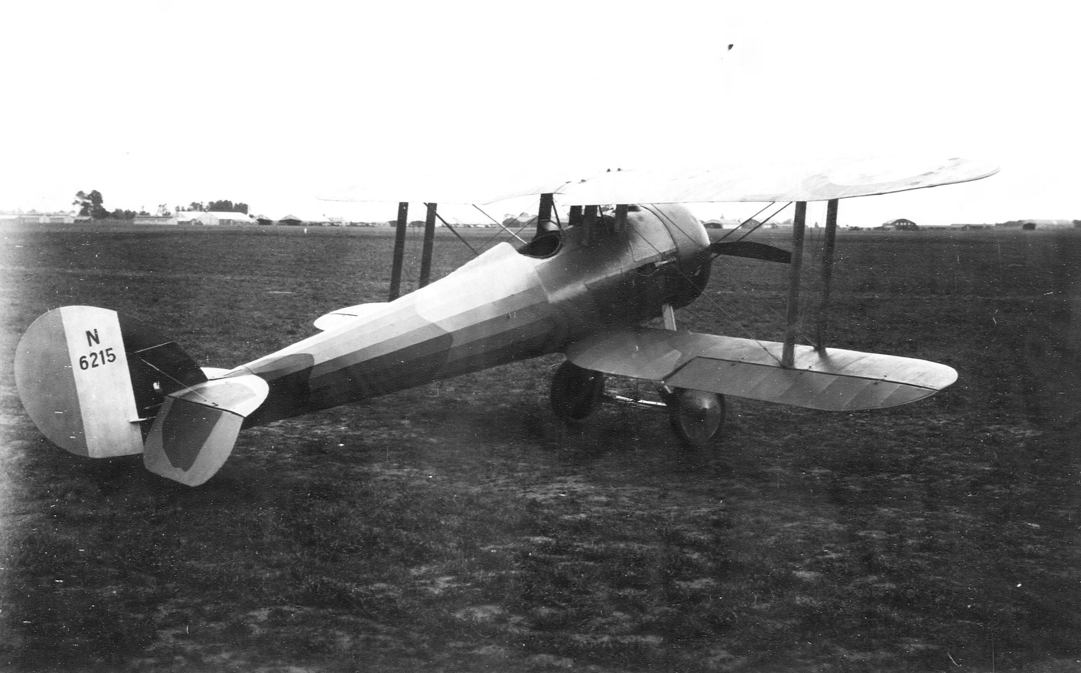 Nieuport 28 at Air Service Production Center No. 2, Romorantin Aerodrome, France, 1918